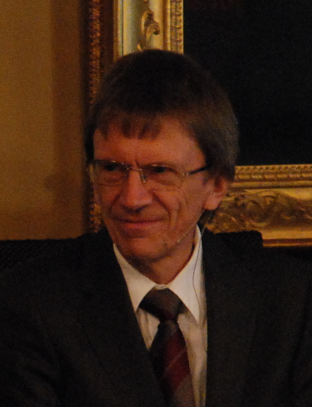 Bertil Holmlund at the announcement of the Laureate of the Sveriges Riksbank Prize in Economic Sciences in Memory of Alfred Nobel 2008 at the Swedish Academy of Sciences